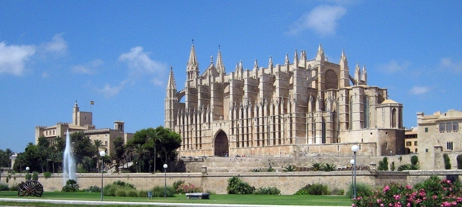 Palma, Mallorca, Balearic Islands, Spain: palma cathedral of the holy maria; called "La Seu"